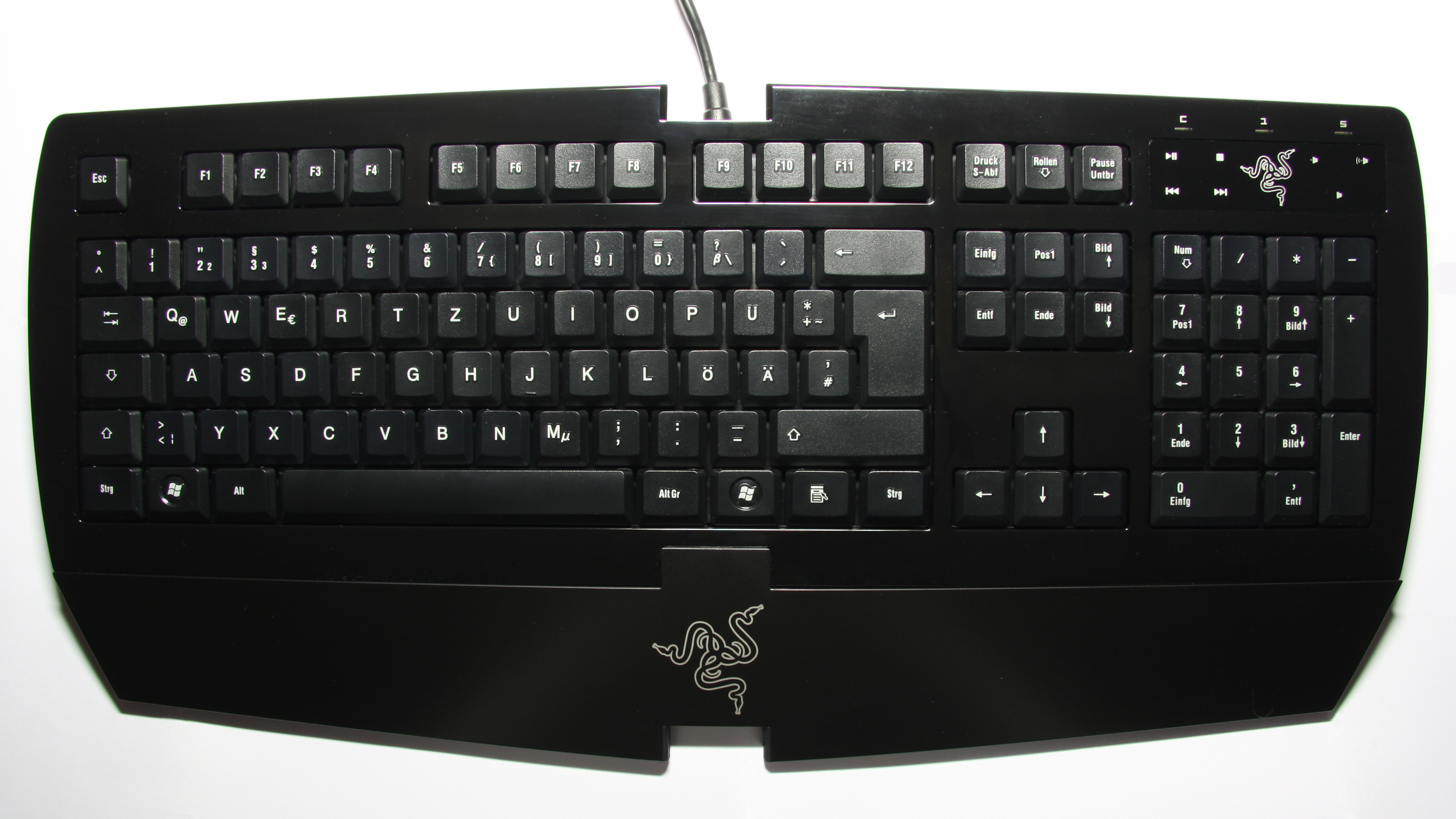 A Razer Arctosa Keyboard